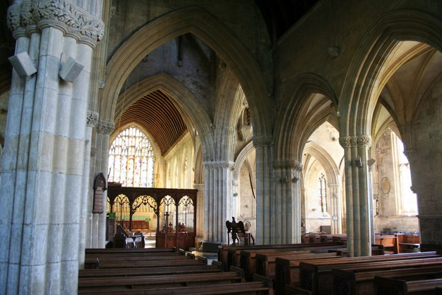 St.Patrick's nave, Patrington, East Riding of Yorkshire, England.Exquisite clustered piers and foliate capitals looking towards the crossing in St.Patrick's church.